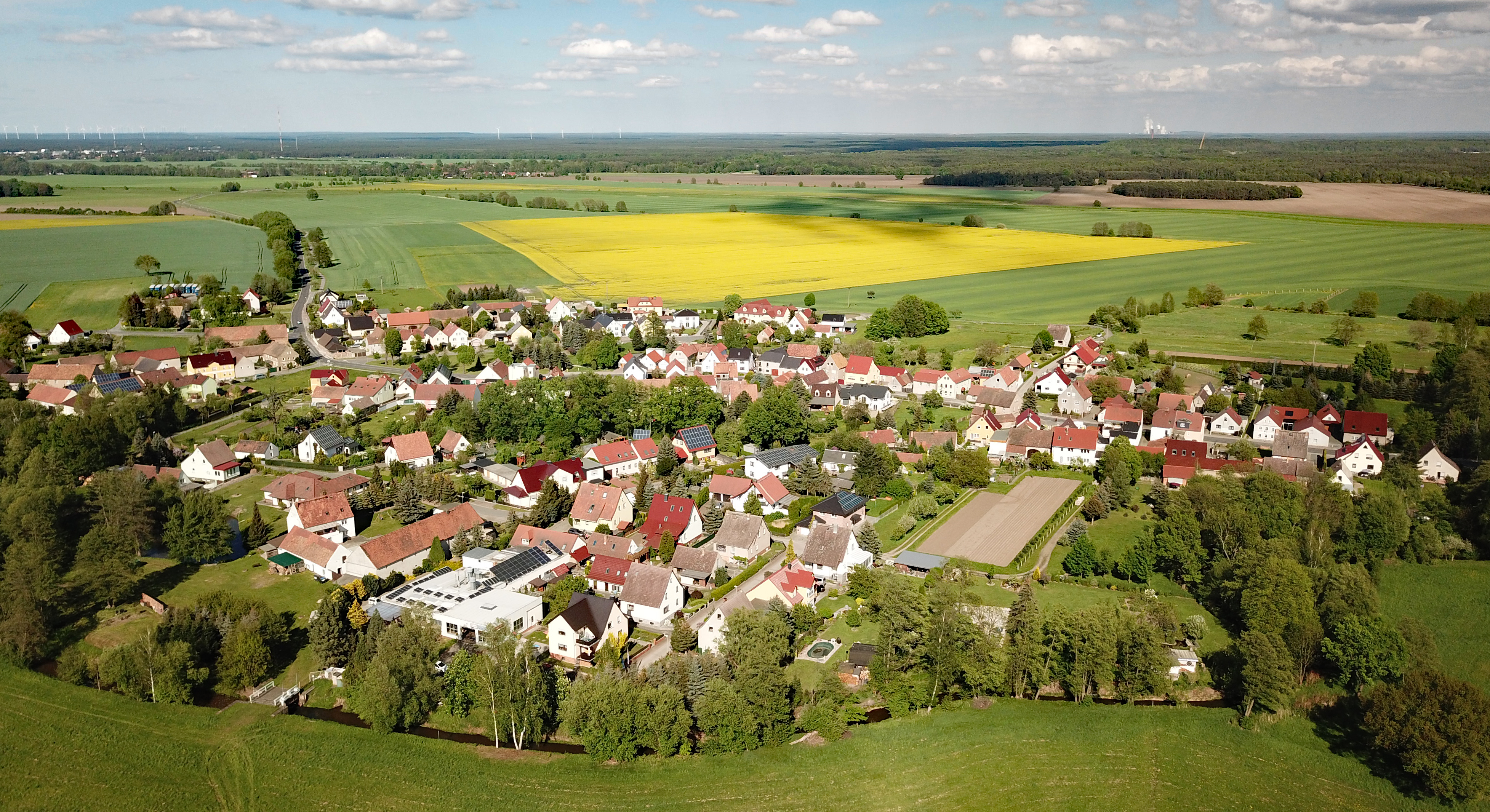 Keula (Wittichenau, Saxony, Germany) Hornjoserbsce: Powětrowy wobraz Kulowca